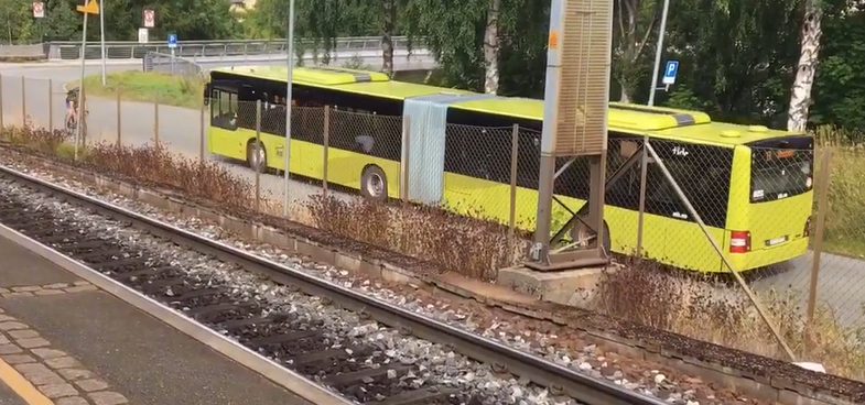 A MAN Lions City A23 or GL/G from Trondheim in Norway operating on Line 13 towards Strindheim, a large Shopping Center in the city. Here We see it at Marienborg Train depot and Station.